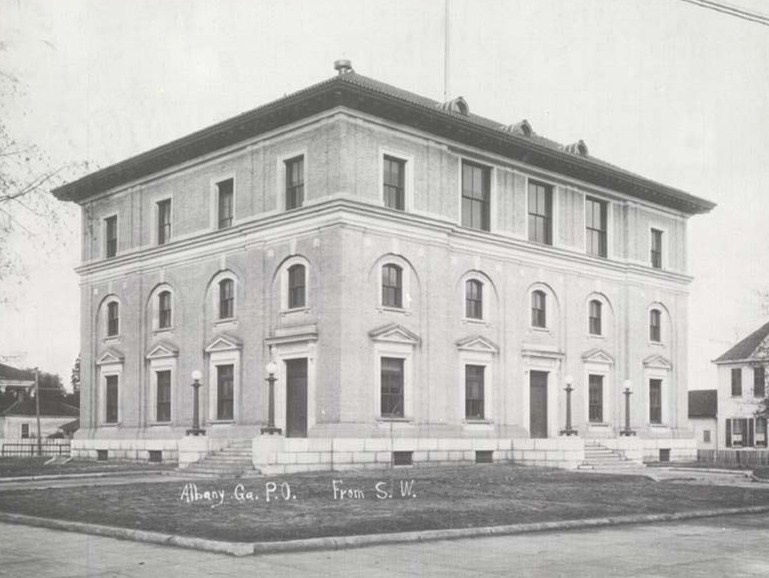 U.S. Post Office and Courthouse (n.d., ca. 1912), Albany (Dougherty County, Georgia) cropped This work is in the public domain in the United States because it is a work prepared by an officer or employee of the United States Government as part of that person’s official duties under the terms of Title 17, Chapter 1, Section 105 of the US Code. Note: This only applies to original works of the Federal Government and not to the work of any individual U.S. state, territory, commonwealth, county, municipality, or any other subdivision. This template also does not apply to postage stamp designs published by the United States Postal Service since 1978. (See § 313.6(C)(1) of Compendium of U.S. Copyright Office Practices). It also does not apply to certain US coins; see The US Mint Terms of Use. This file has been identified as being free of known restrictions under copyright law, including all related and neighboring rights. Object location31° 34′ 38″ N, 84° 09′ 20″ W